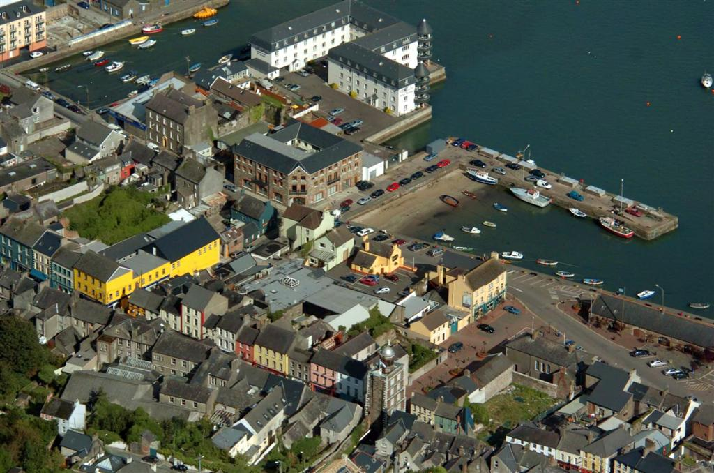 Aerial view of Youghal